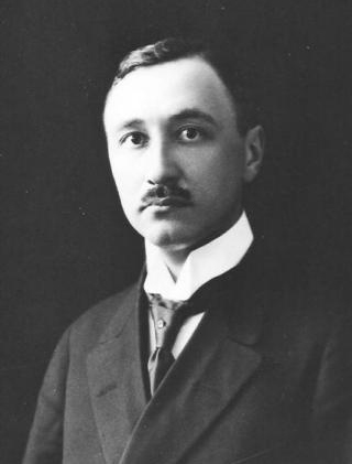 Photograph of the Finnish historian Per Olof von Törne (1882–1940).